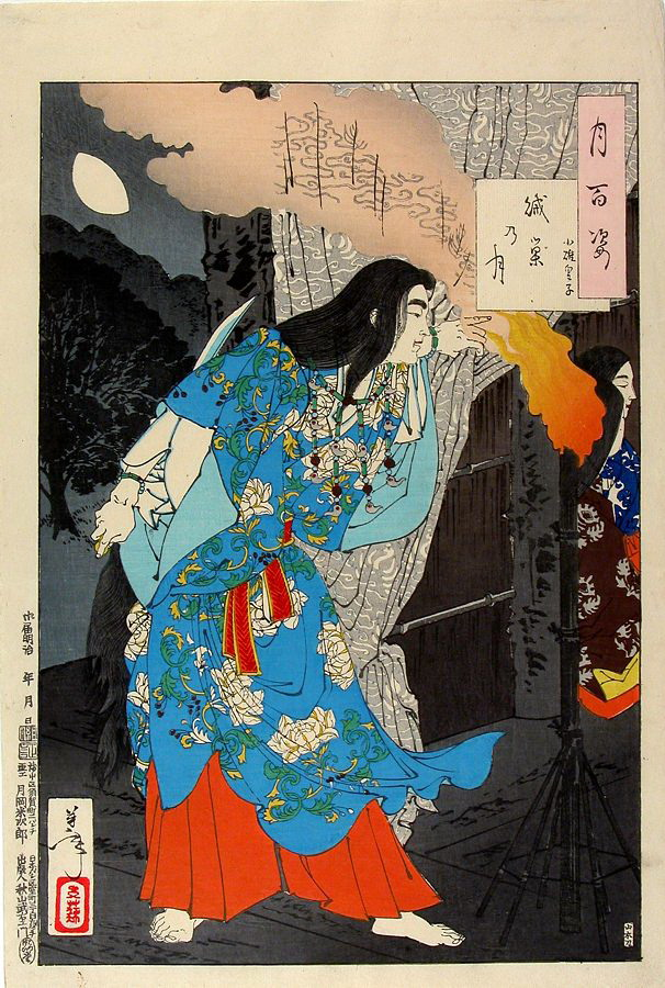 Moon of the enemy's lair - Yamato Takeru as Little Prince Usu